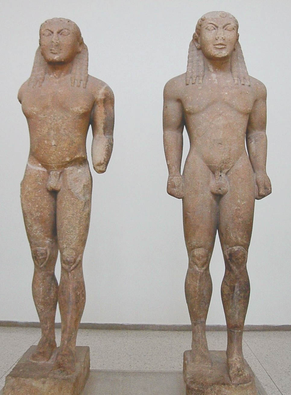 Statues of Kleobis and Biton (identified by inscriptions on the base) dedicated to Delphi by the city of Argos, signed by [Poly?]medes of Argos. Marble, ca. 580 BC. H. 1.97 m (6 ft. 5 ½ in.), after restoration. Archaeological Museum of Delphi, no. 467, 1524.